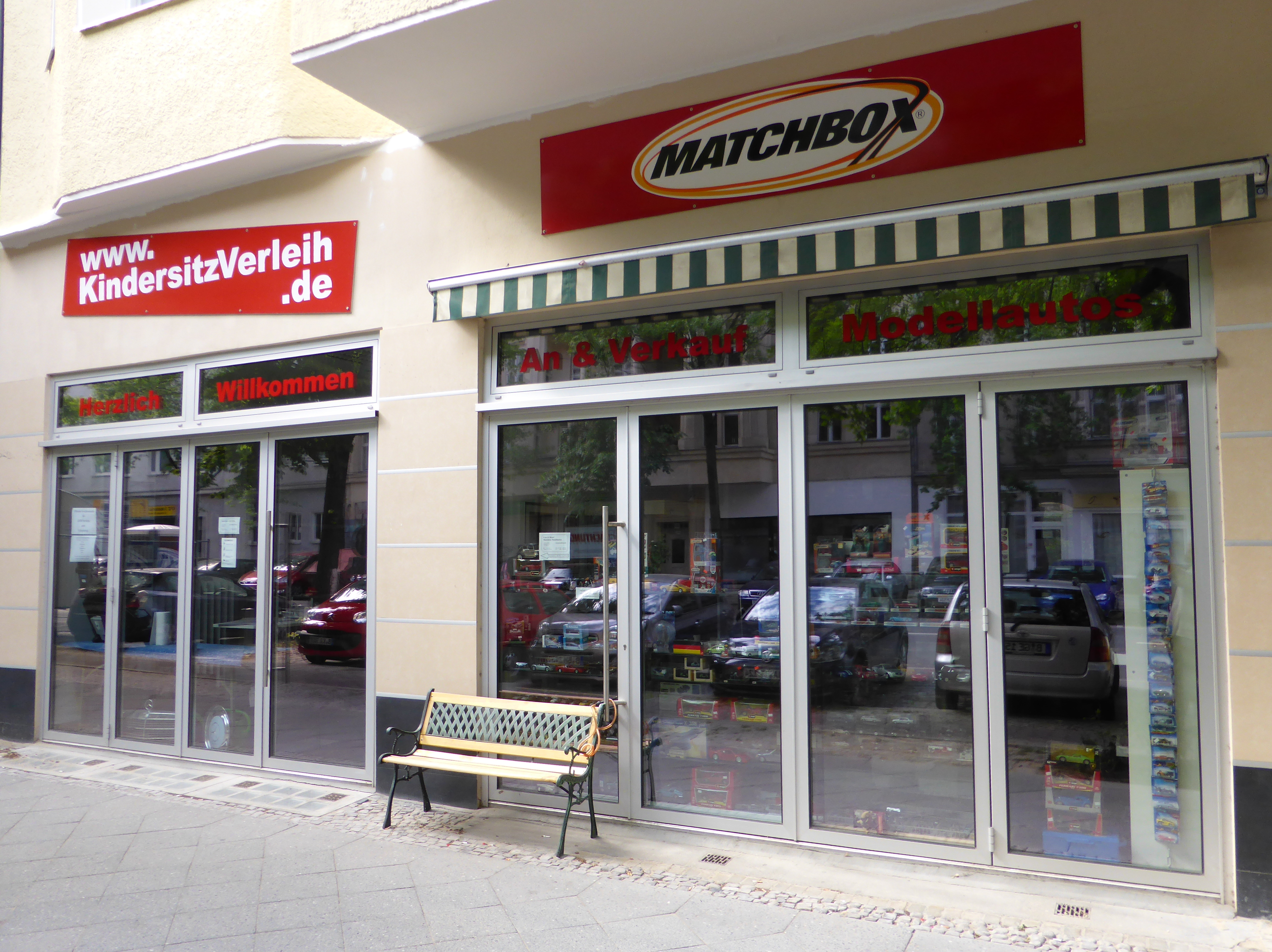 Berlin in early summer